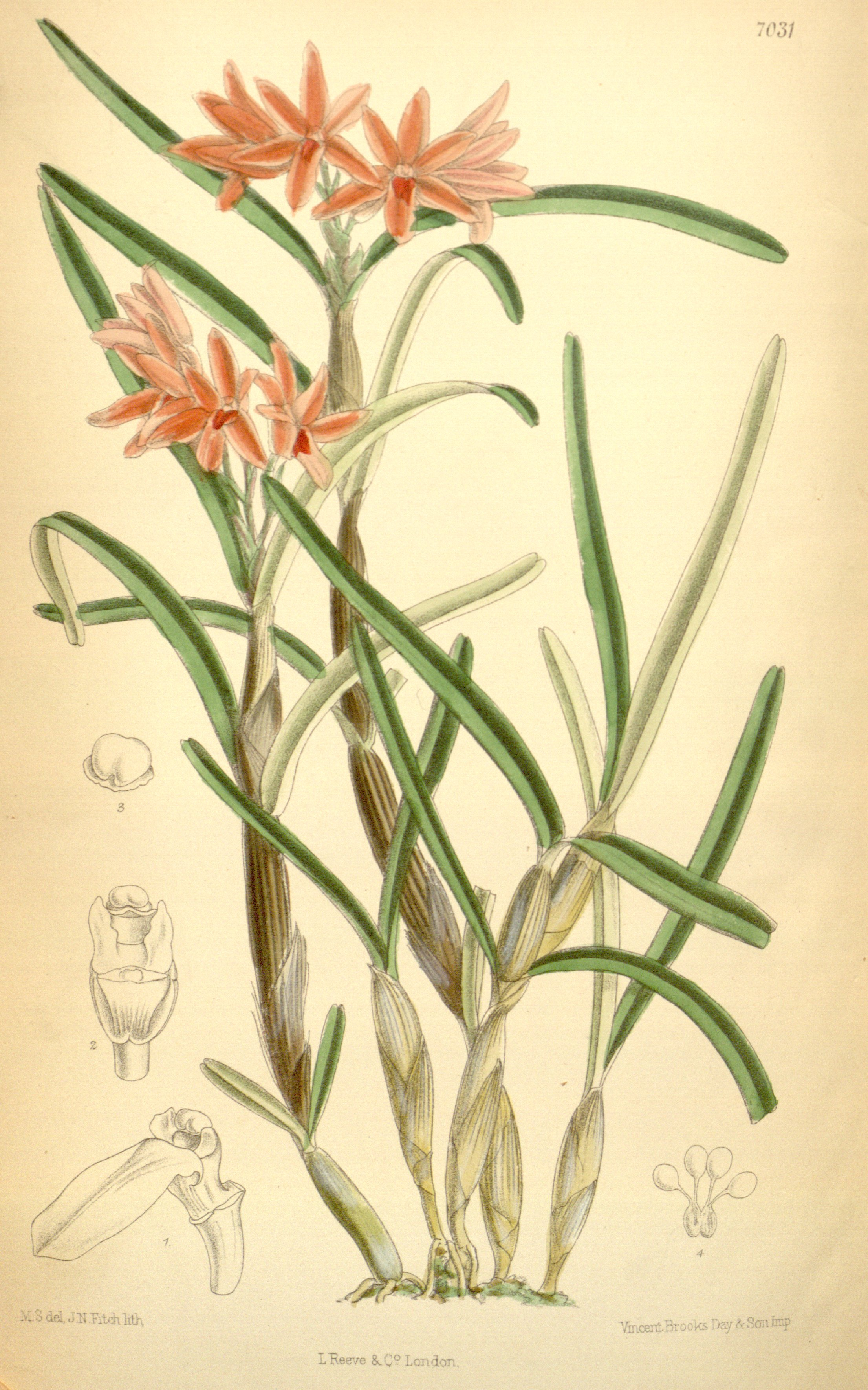 Illustration of Scaphyglottis bidentata, as syn. Hexisea bidentata (spelled by Hooker as Hexisia bidentata)